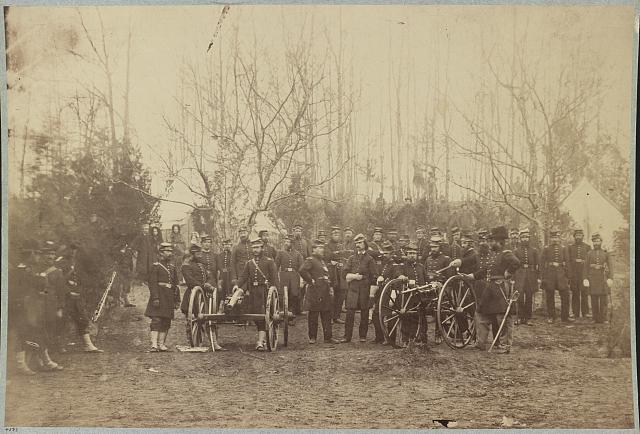 The officers of the 96th Pennsylvania around an Ager "Union" gun in February, 1862.